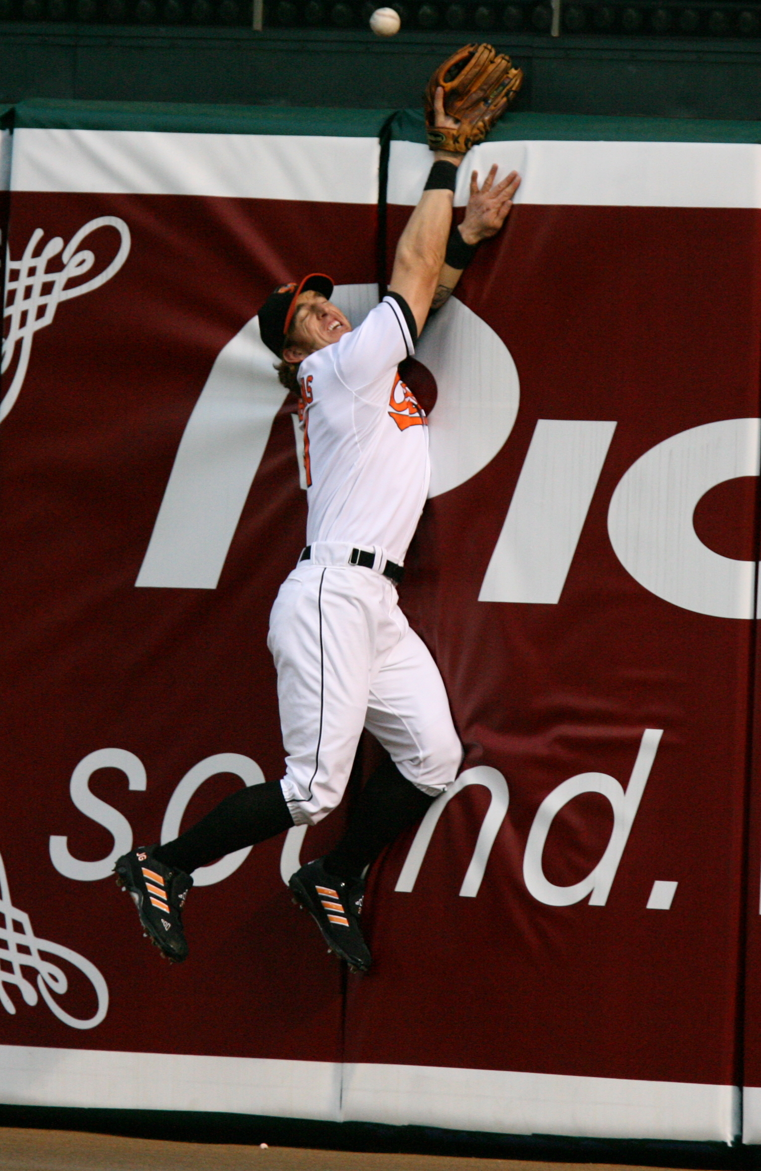 An image of Jay Gibbons making a play in 2007.